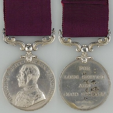 The King George V version of the Army Long Service and Good Conduct Medal with the original ribbon, in use until mid-1916